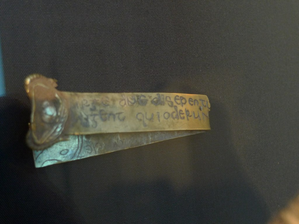 This gold strip is one of the most significant objects from the Hoard because it is inscribed with a verse from the Bible in Latin -- Rise up, Lord, and may thy enemies be dispersed and those that hate thee be driven from thy face -- (Numbers 10:35). Pieces of inscribed metalwork from this period are very rare. Interestingly the Latin includes some spelling mistakes. We are not sure what this strip comes from.